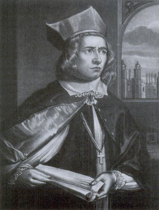 17th-century actor Henry Harris as Cardinal Wolsey in Sir William Davenant's 1664 revival of Henry VIII by Shakespeare. The image is believed to be one of the first representations of an English actor in a Shakespearean role.